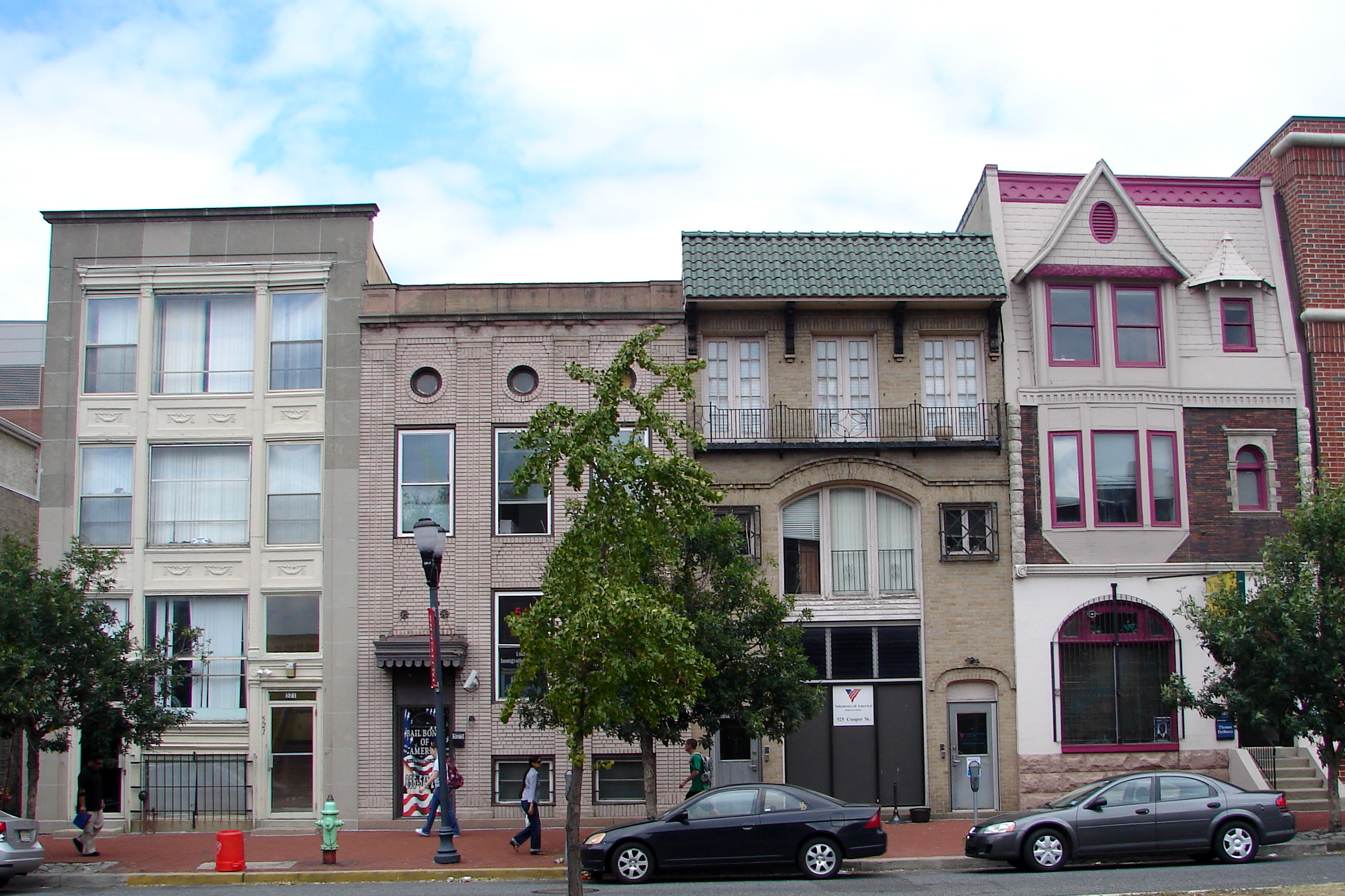 James M. Downey Building on the NRHP since August 22, 1990. At 521 Cooper St., Camden, New Jersey. First building on the left. 525 (two buildings to the right) is also on the NRHP, and both are part of the Cooper Street Historic District.